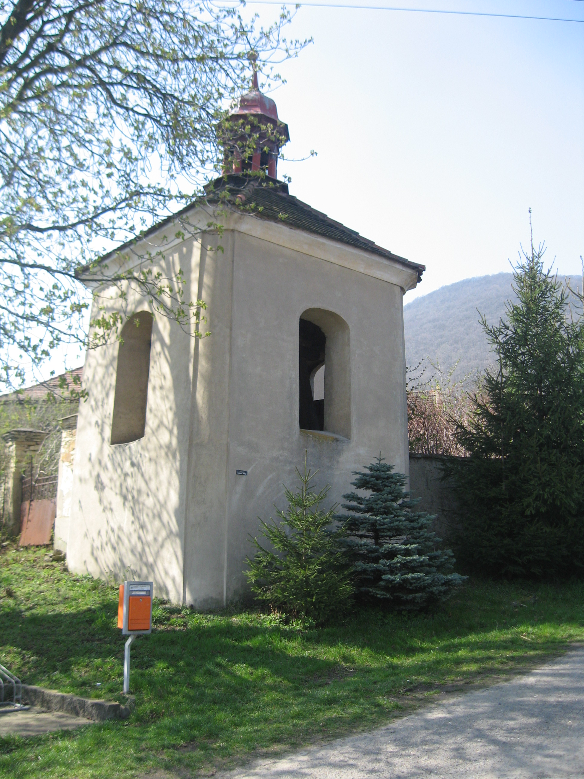 Bell tower in Lipá